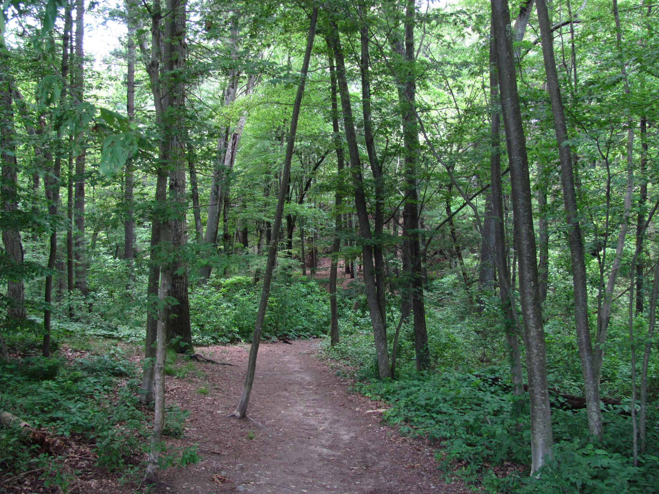 Trail leading into Wilson Mountain Reservation, Dedham Massachusetts